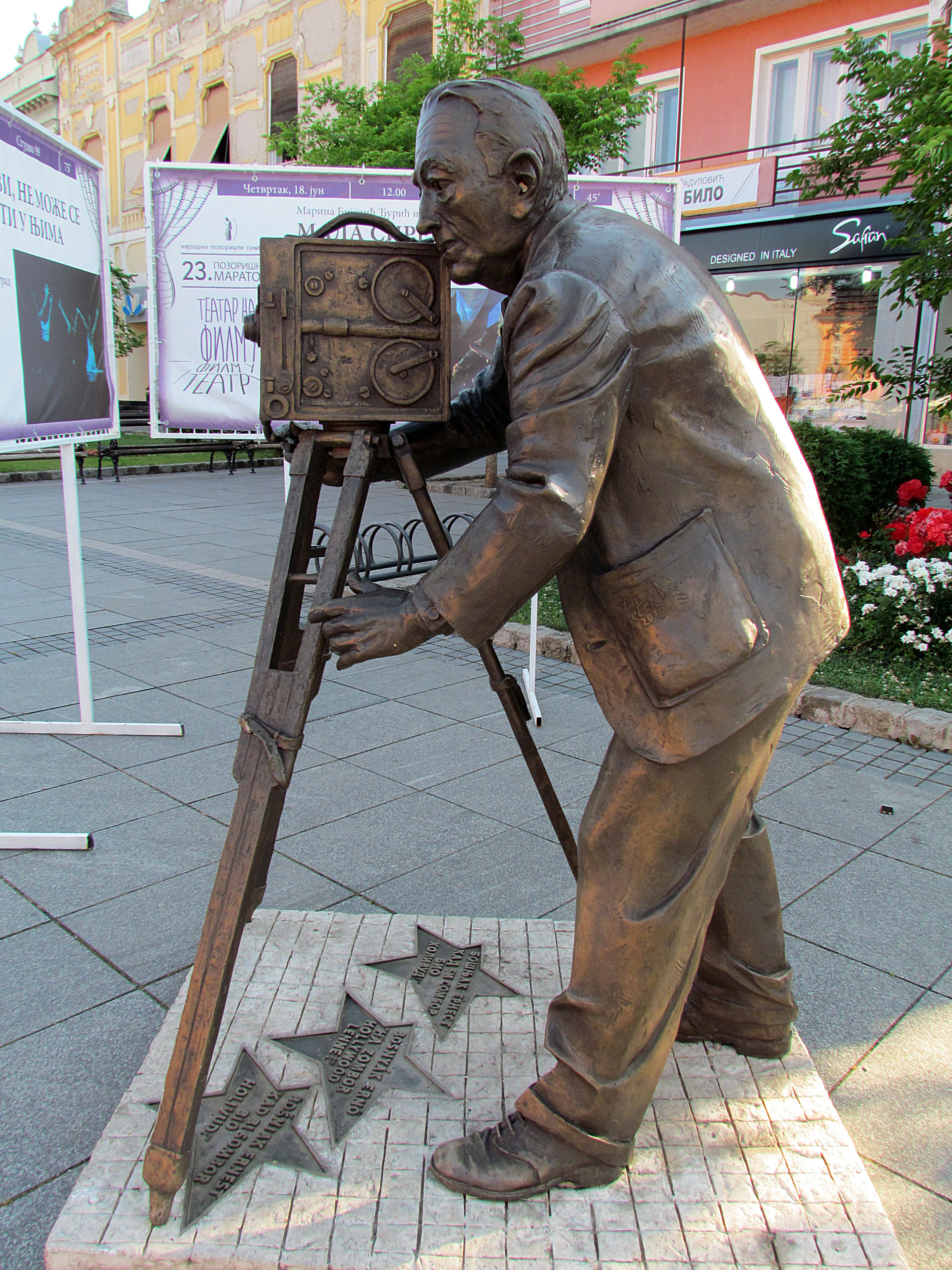 Ernest Bošnjak monument in Sombor